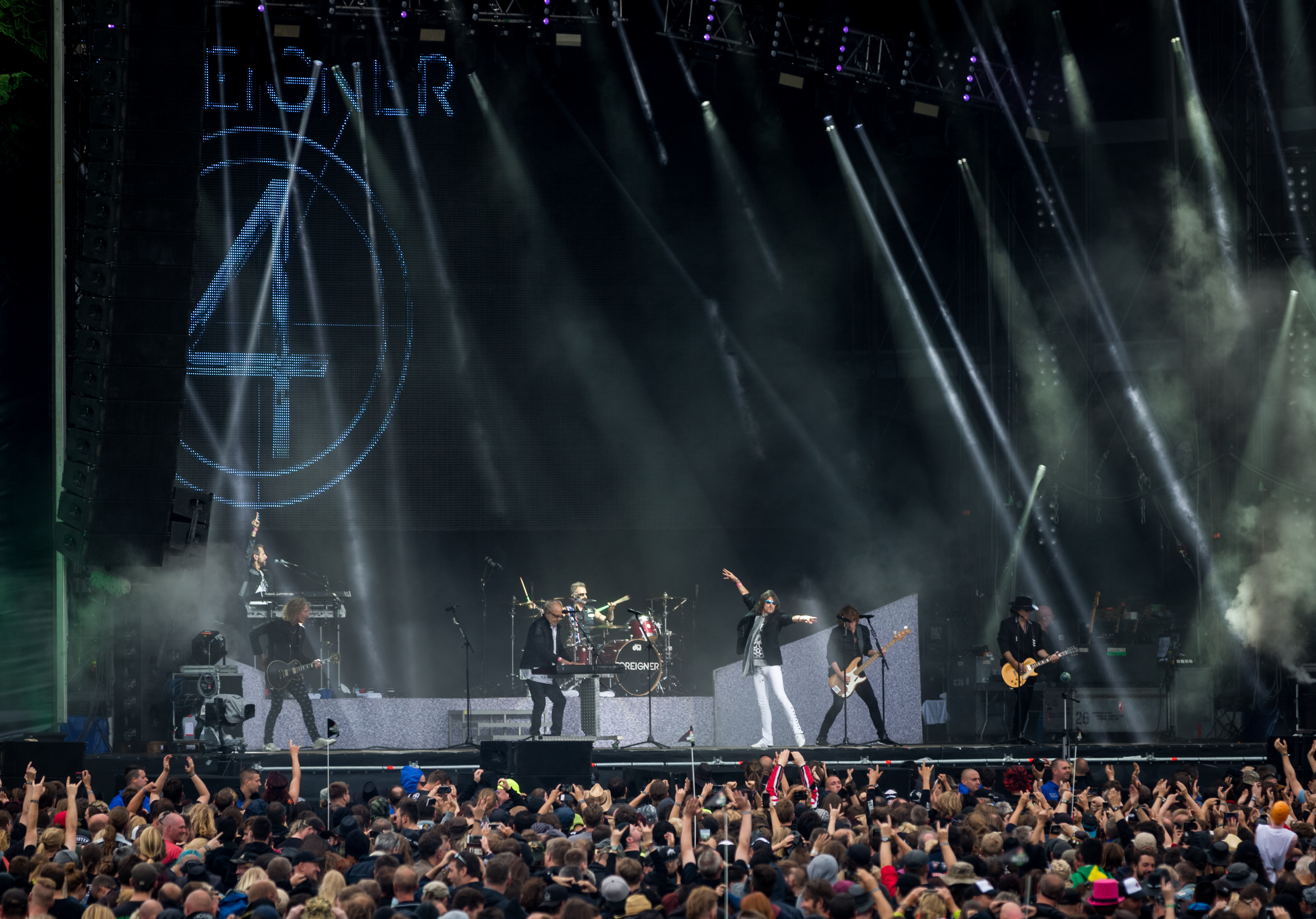 Foreigner - Wacken Open Air 2016